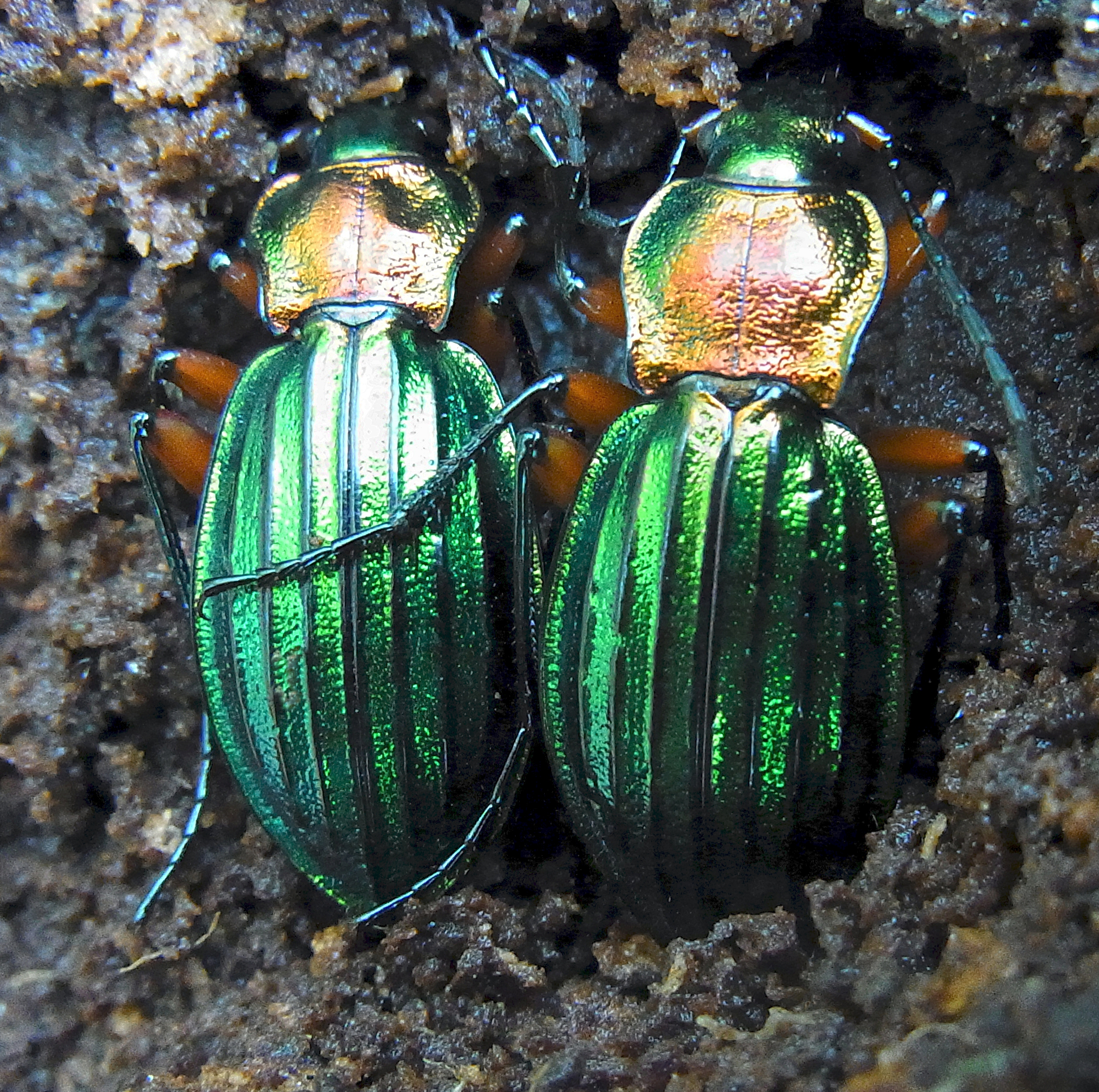 Carabus auronitens pair in winter-hiding under bark of dead tree, found 2010-11-04 in France, Foret de Tronçais near Montluçon